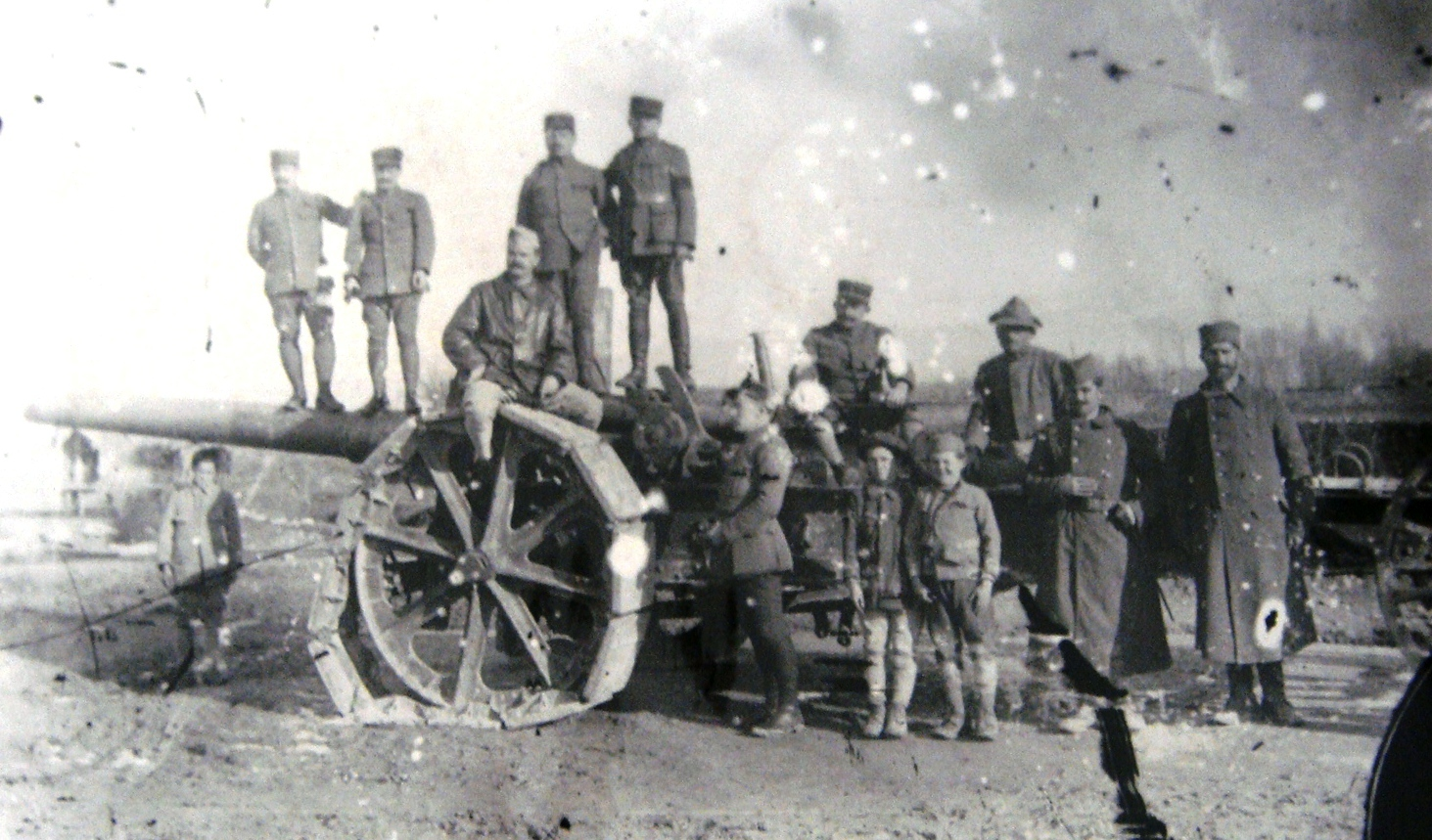 A group of French and Serbian soldiers photographed in front of the cannon "Eve ", captured from the German army. Bitola, 1916 (Damaged glass plate) This media file is produced by Wikipedian in Residence in Category:Wikipedian in Residence at DARM in 2016.